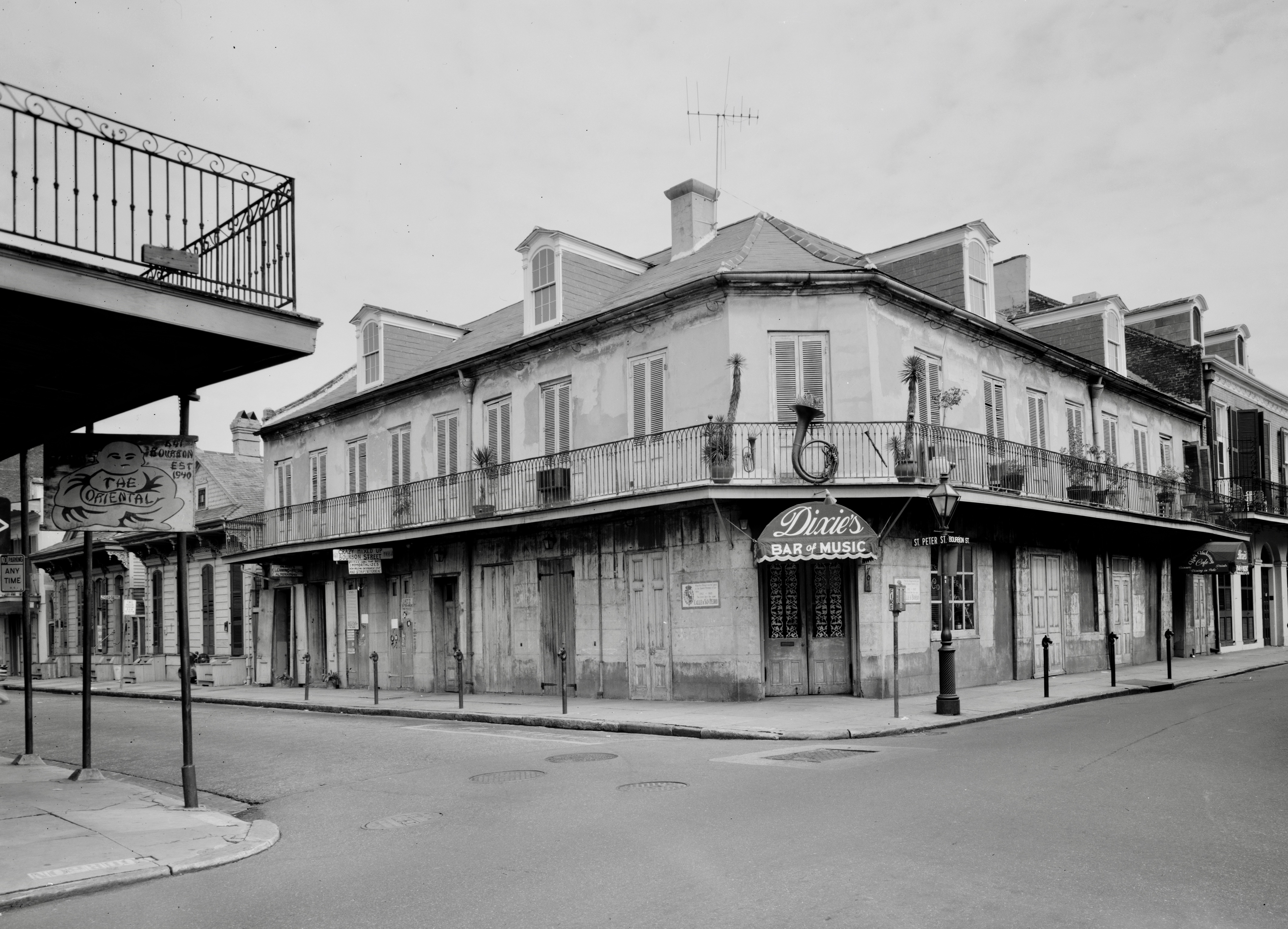 Price, Virginia B, transmitter; Koch, Richard, photographer